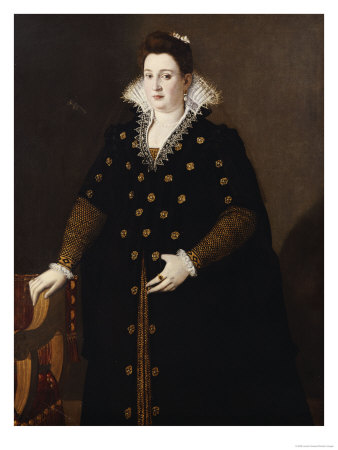 Portrait of a Noblewoman Said to Be Bianca Cappello, Grand Duchess of Tuscany (1548-1587)